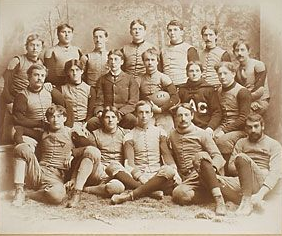 Photograph of the 1893 Greensburg Athletic Association football team, which became one of the very first professional football teams. 1893 marks the club's last year as an amateur club. The team was also called the Greensburg Athletic Club during this time.